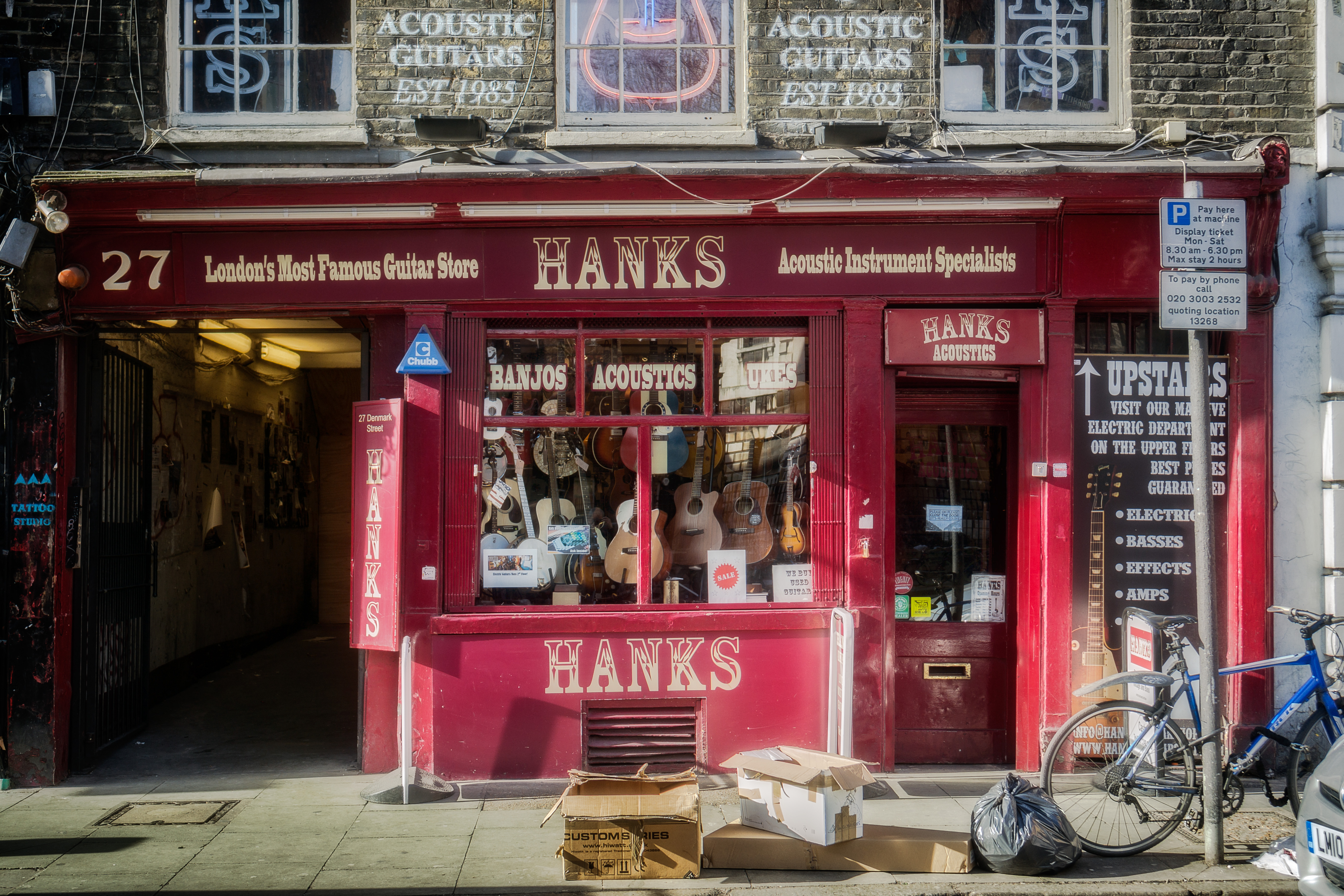 Selling archaic instruments. Not a synthesizer in sight